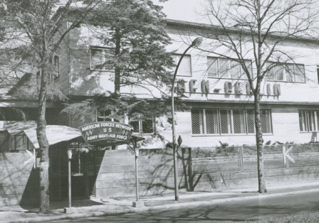 AFN-Berlin at Podbielskiallee in Berlin-Dahlem circa 1950